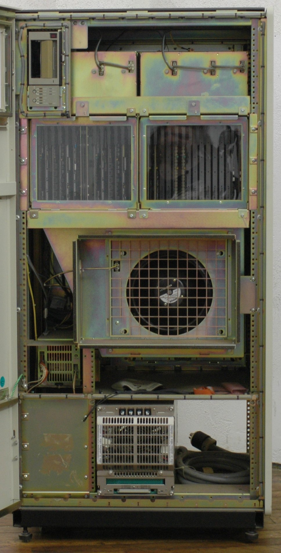 VAX 6220 minicomputer, with front door open. From the collection of the RCS/RI.